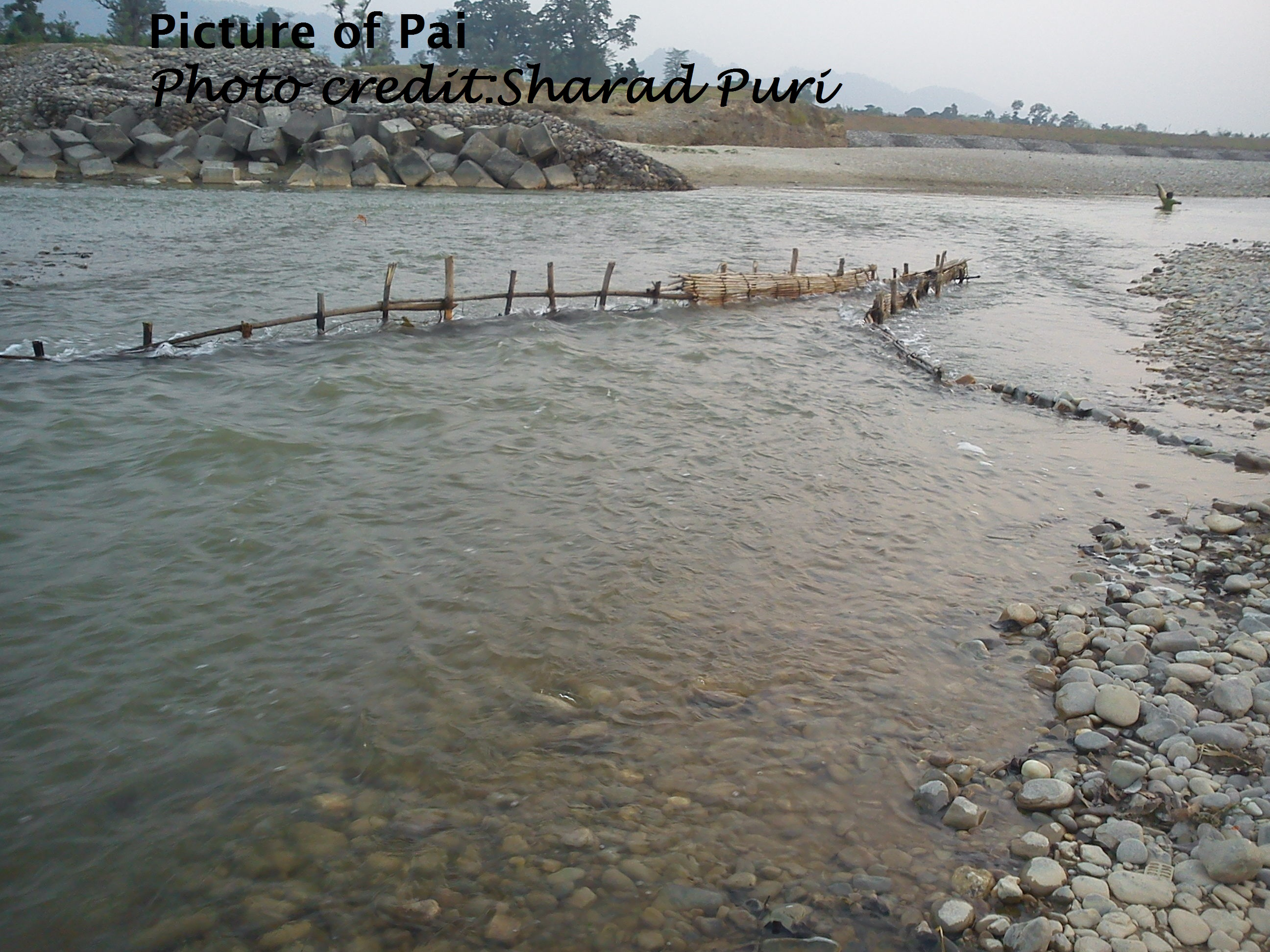 pai constructed by bishnu chaudhary in rapti river near gobardiha-2, dang